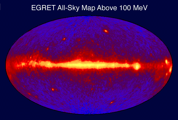 Egret all sky gamma ray (above 100MeV) map from CGRO spacecraft